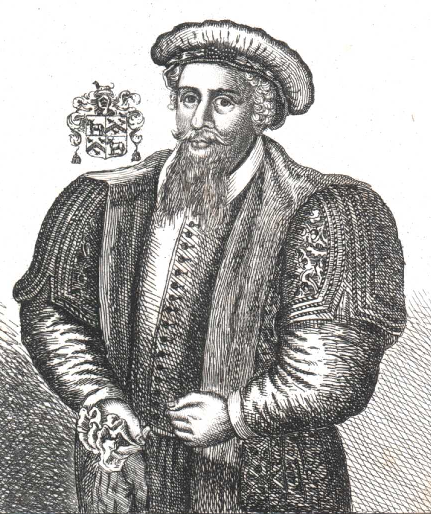 Mark Ridley, 1560-1624, Original Dimensions: Graphic: 11.2 x 9.3 cm / Sheet: 21.5 x 13.5 cm